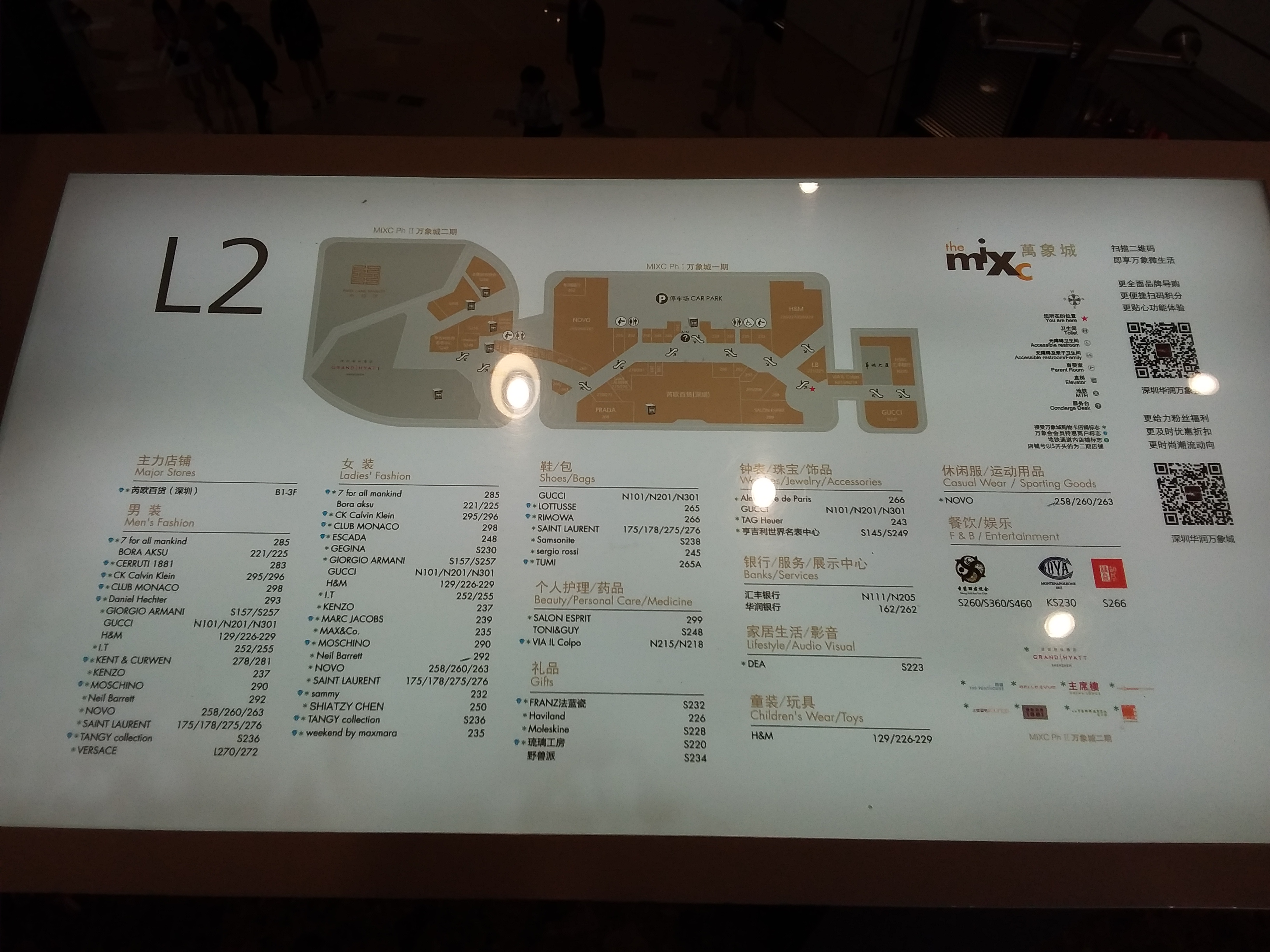 SZ 深圳 Shenzhen 羅湖區 Luohu 華潤萬象城 MixC mall sign in August 2018